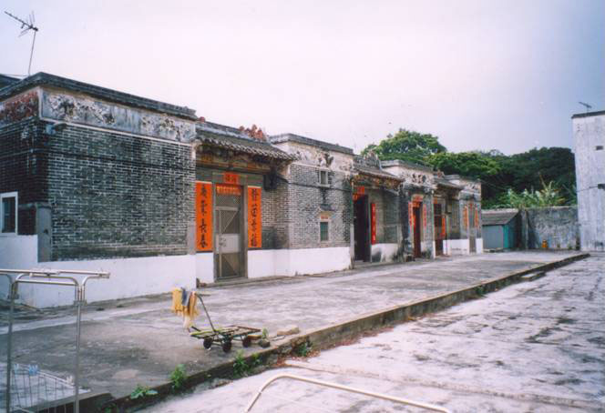 Tsung_Pak_Long Hakka Wai, Tsung Pak Long, Residential Houses, Sheung Shui The second door from the left is Wong Shek Chung Ancestral Hall